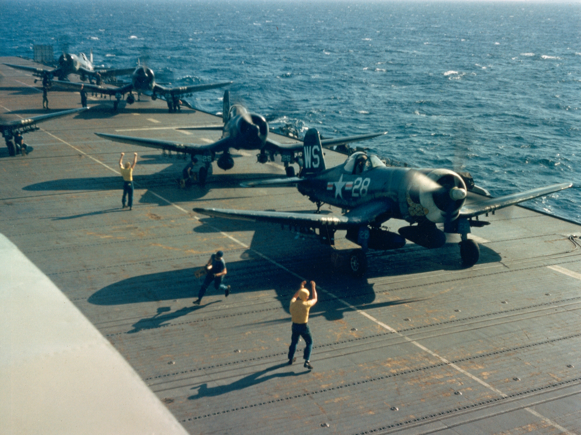 U.S. Marine Corps Vought F4U-4 Corsairs of Marine Fighter Squadron VMF-323 armed with bombs, napalm tanks and HVAR rockets are launched for a mission from the flight deck of the escort carrier USS Sicily (CVE-118) off Korea, in 1951. Note the rattlesnakes painted on some aircraft, due to the squadron's nickname "Death Rattlers".